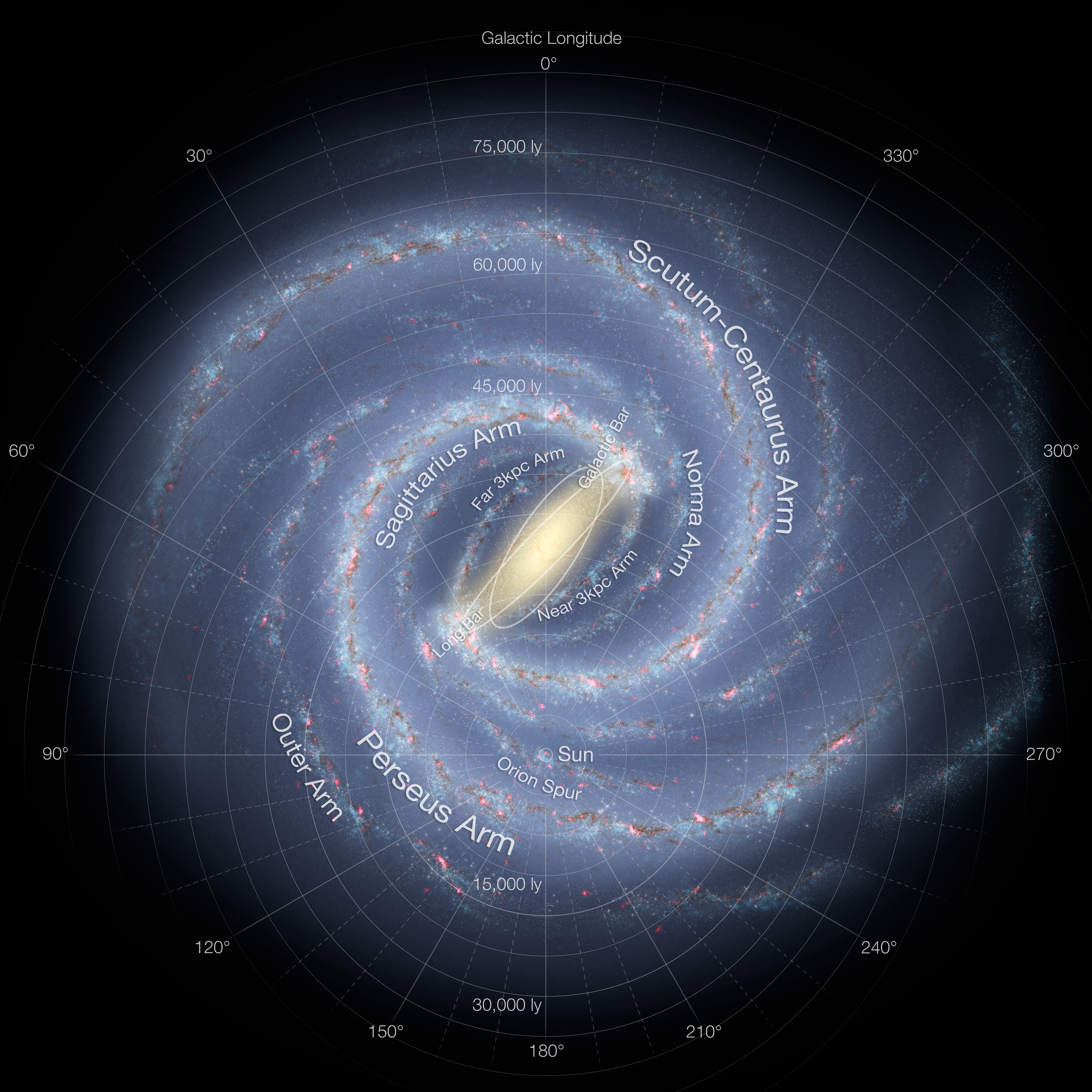 This detailed annotated map shows the structure of the Milky Way, including the location of the spiral arms and other components such as the bulge. This version of the image has been updated to include the most recent mapping of the shape of the central bulge deduced from survey data from ESO’s VISTA telescope at the Paranal Observatory. The original image was published in 2008 by NASA/JPL-Caltech (author R. Hurt).